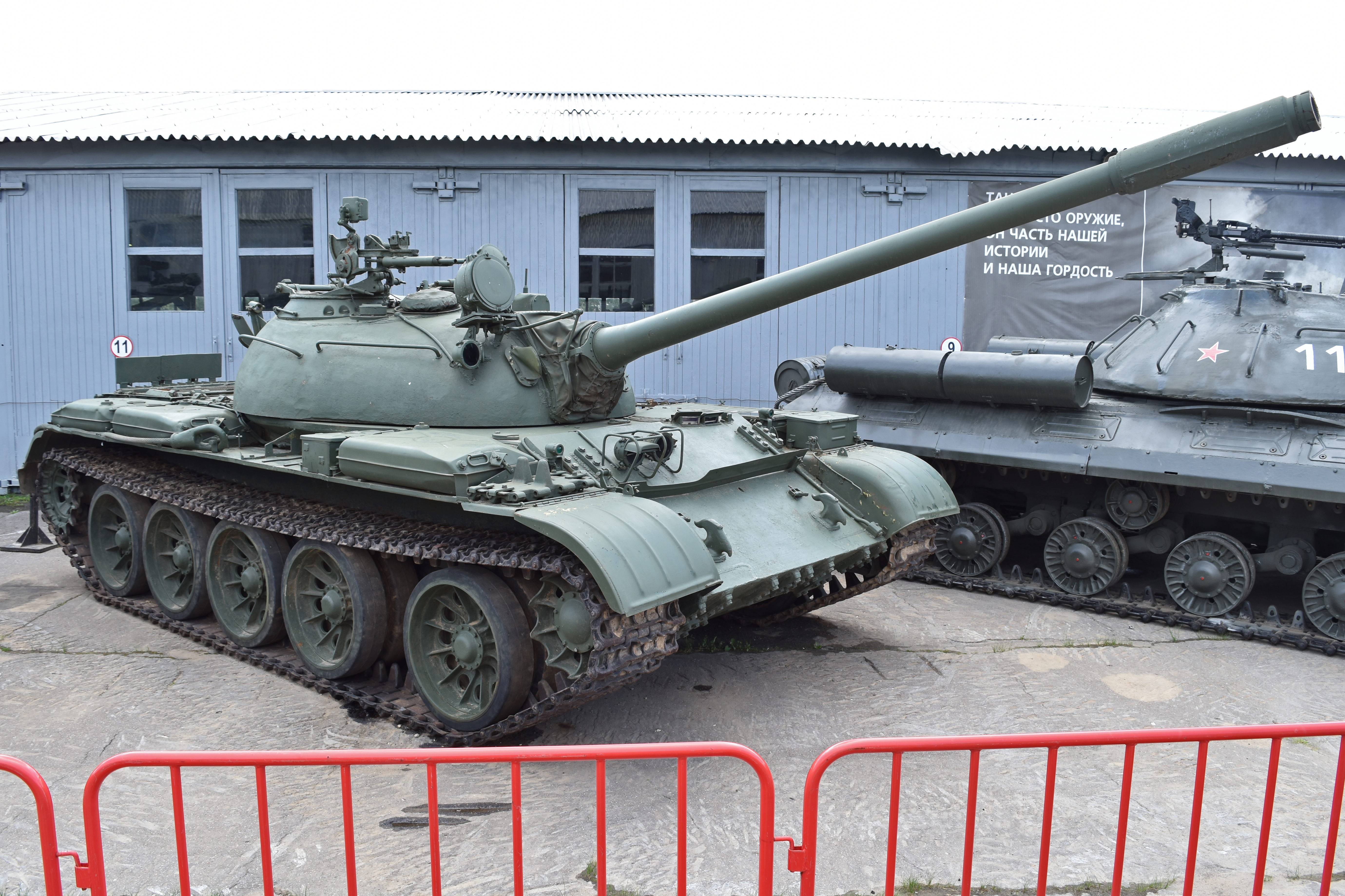 Soviet Cold-war era Main Battle Tank Designer:- Leonid N Kartsev Manufacturer:- Stalin Ural Tank Factory No. 183 (Uralvagonzavod) Built:- 1955 to 1957 (Soviet Union) Entered Service:- 1955 Main Armament:- 100mm D-10TG tank gun with STP-1 ‘Gorizont’ vertical-plane stabiliser. Updated model of the T-54 with a vertical stabiliser on the main gun as well as a snorkel and other improvements. This unmarked example is operational and used for demonstrations. It is seen outside at what is known as the Kubinka Tank Museum, although it is now officially titled Area 2 of the Park Patriot Museum. Kubinka, Moscow Oblast, Russia. 24th August 2017